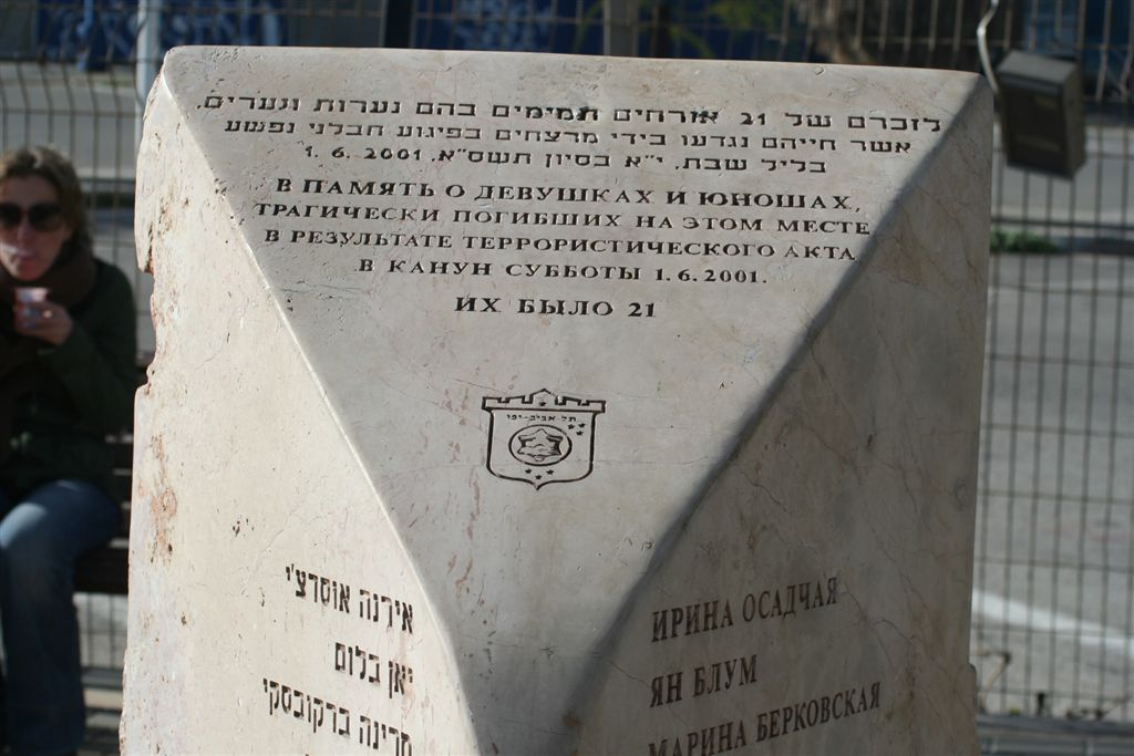 Monument with the names of 21 victims of Hamas Terror act acused in the Tel-Aviv disco 1 July 2001.